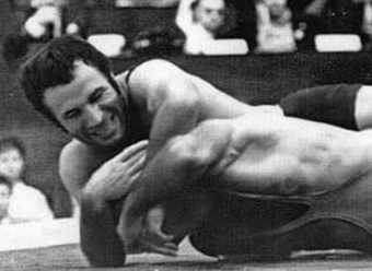 Ruslan Ashuraliyev vs Mansour Barzegar at the 1975 World Championships (74 kg freestyle)